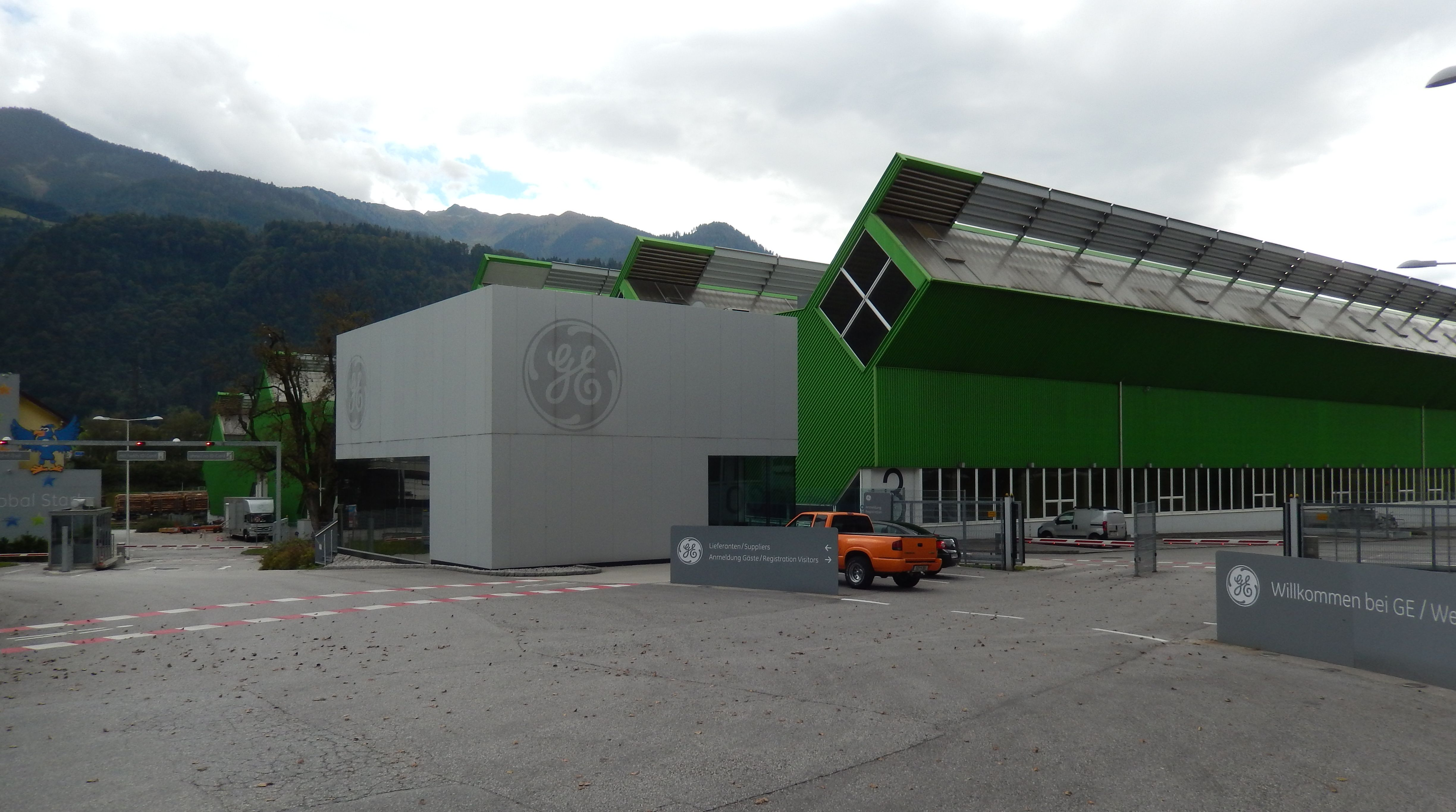 Entrance of GE Jenbacher in Jenbach, Austria.